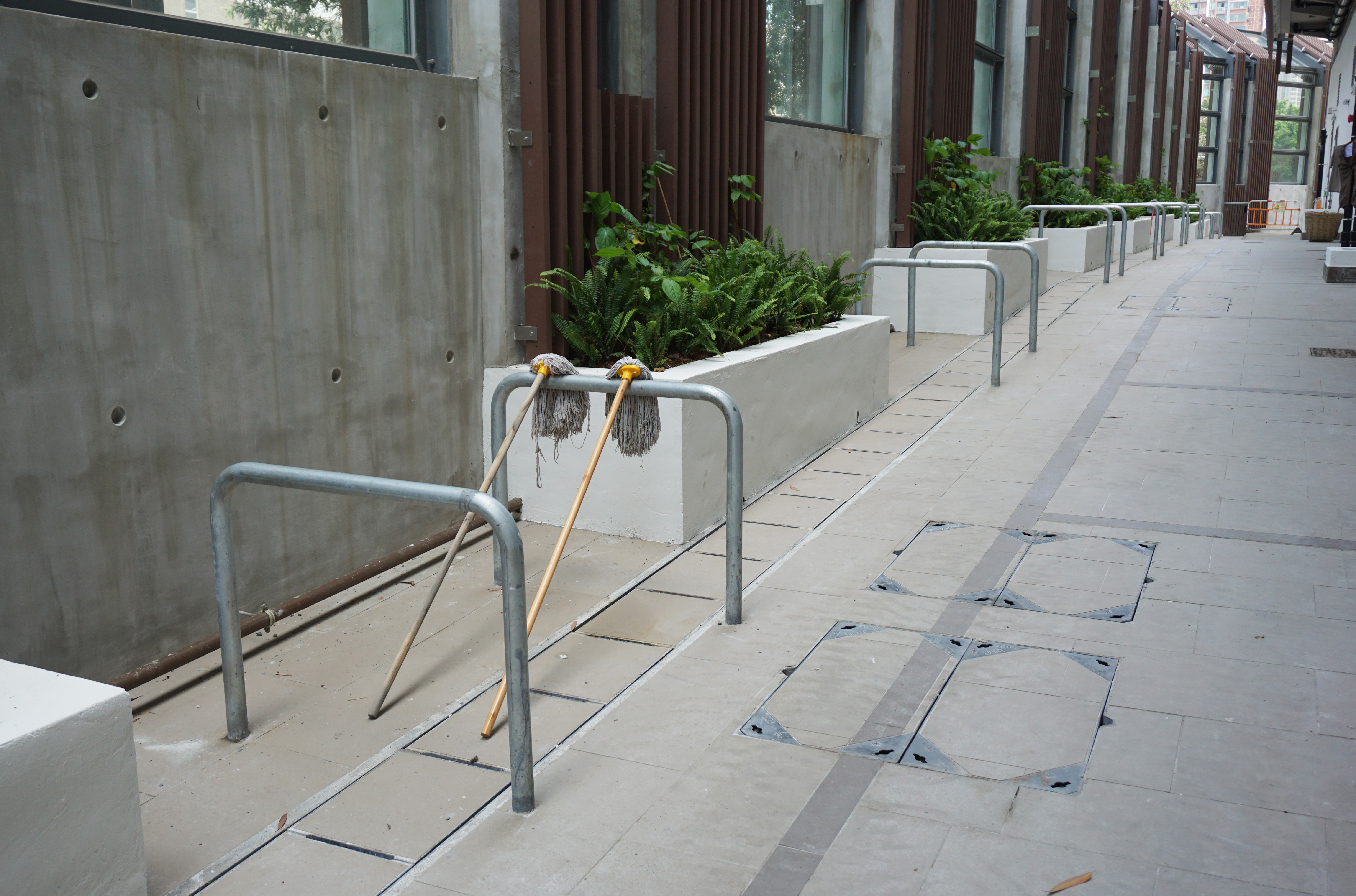 Wang Fu Court in Long Ping, Hong Kong.